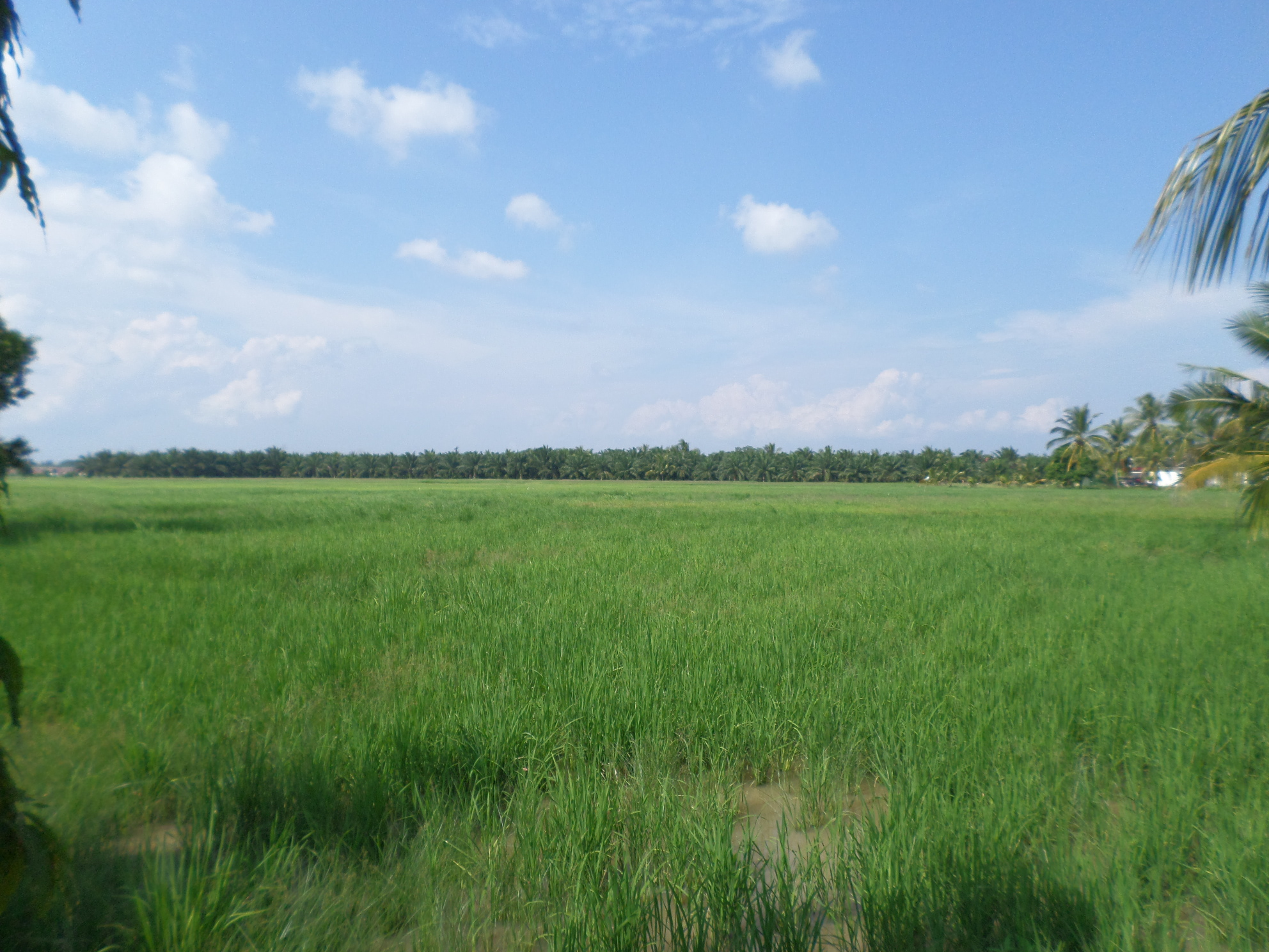 Paddy Field, Merlimau, Jasin, Melaka, Malaysia